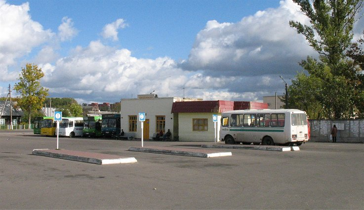 Bus station of Asipovichy (Асiповiчы; Осиповичи) in Mogilev region, Belarus.